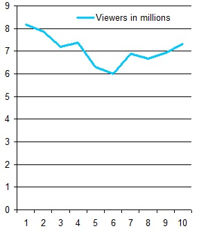 A graph to show the viewers for the second series of Spooks